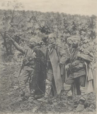 Bulgarian SMAC voivodi - Yordan Stoyanov, Iliya Baltov, Todor Mitsev and Yanakov